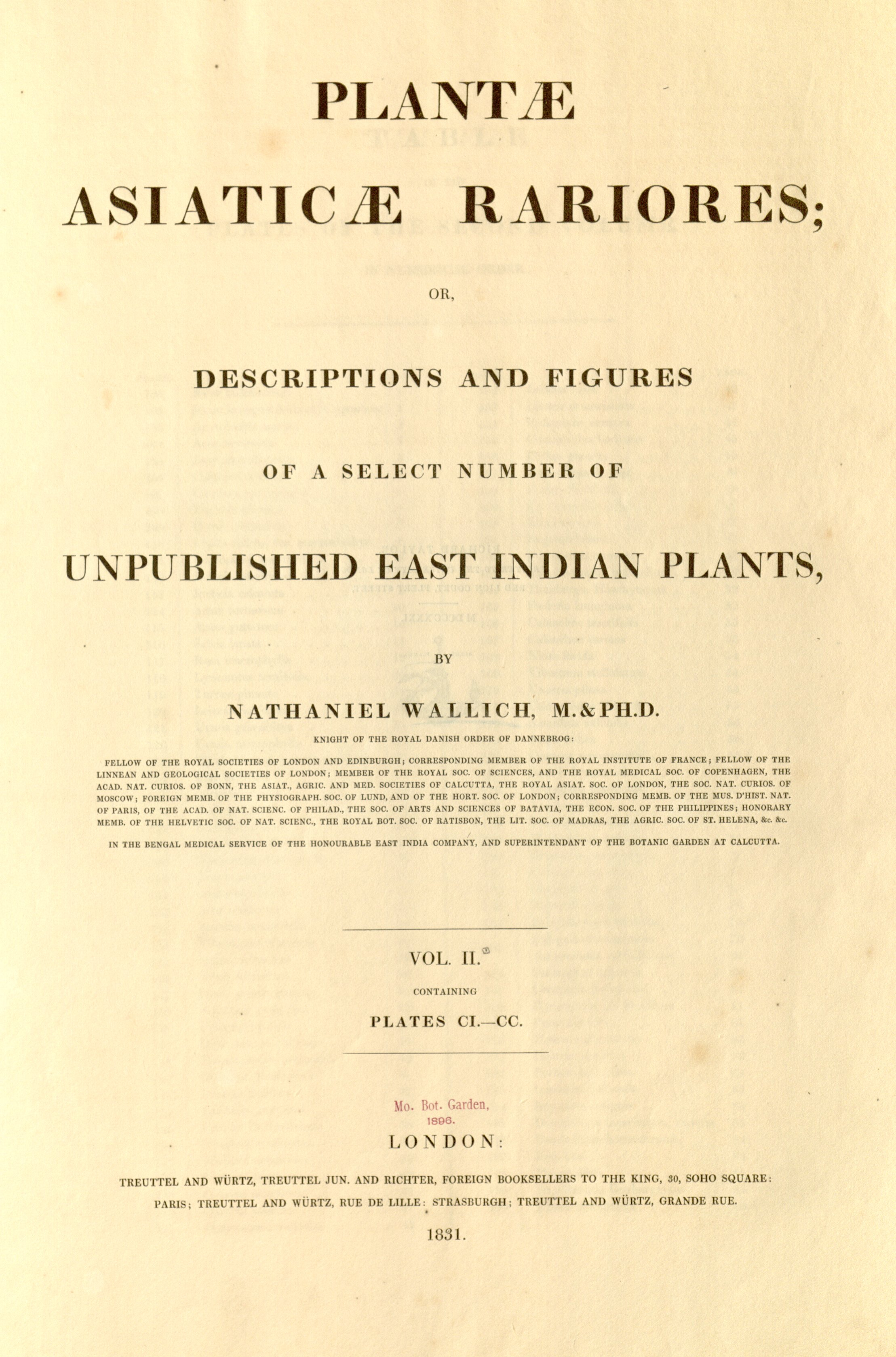 Title of volume II